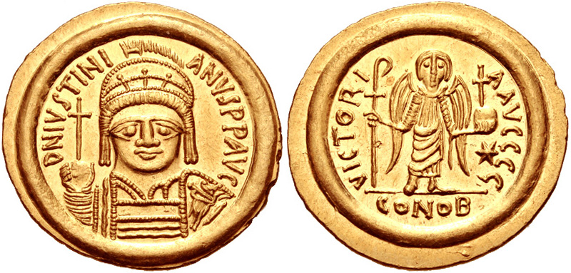 Justinian I. 527-565. AV Solidus (21mm, 4.48 g, 6h). Ravenna mint, 6th officina. Struck AD 546-565. DN IVSTINI ANVS PP AVC, diademed, helmeted, and cuirassed facing bust, holding globus cruciger and shield / VICTORI A AVCCC, Angel standing facing, holding staff terminating in Christogram and globus cruciger; star in right field; ς//CONOB.